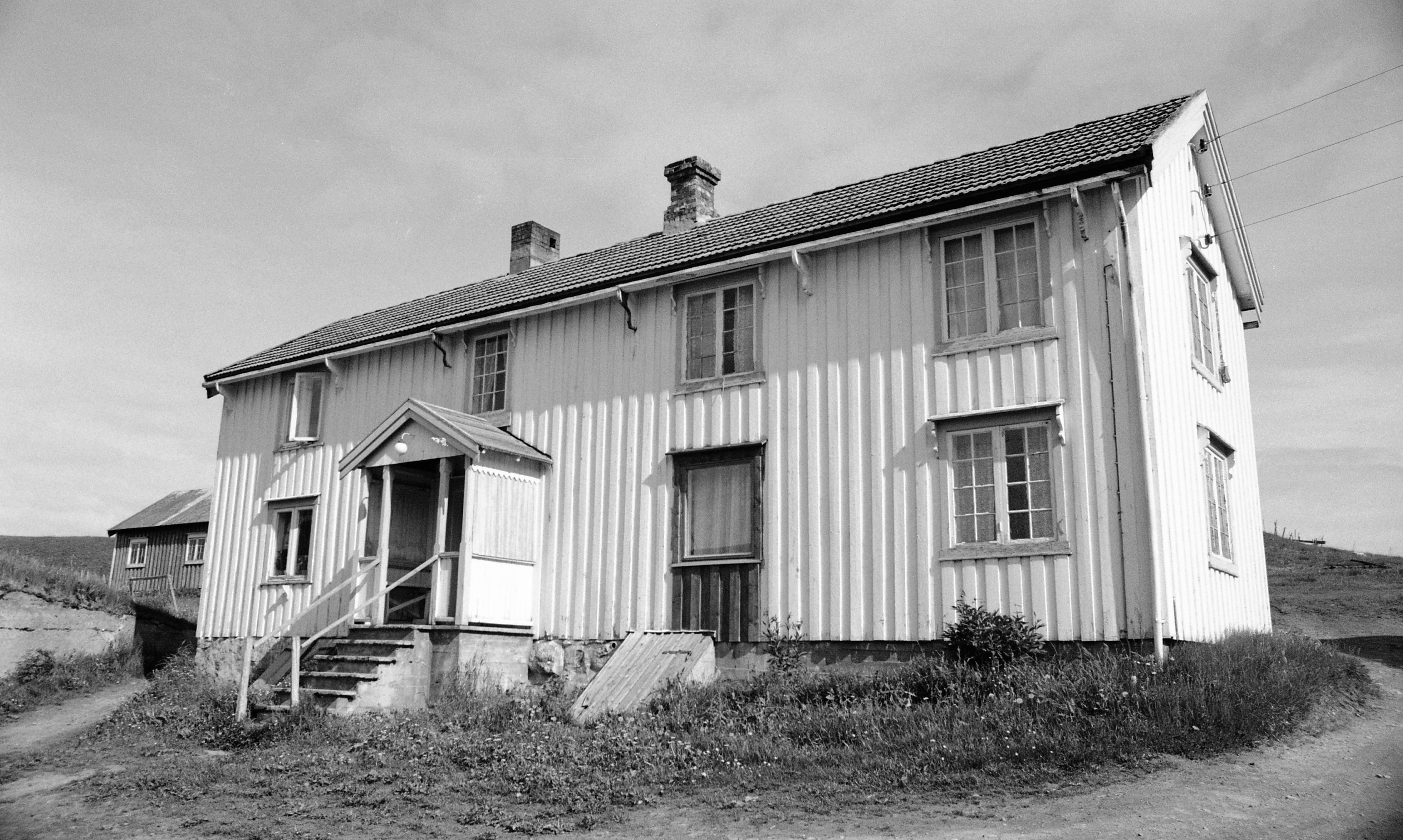 A house at the Onsøen farm in Trøndelag, Norway, in 1980